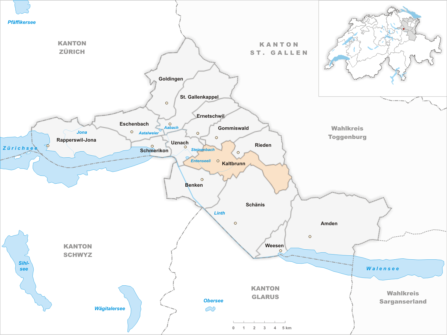 Municipality Kaltbrunn